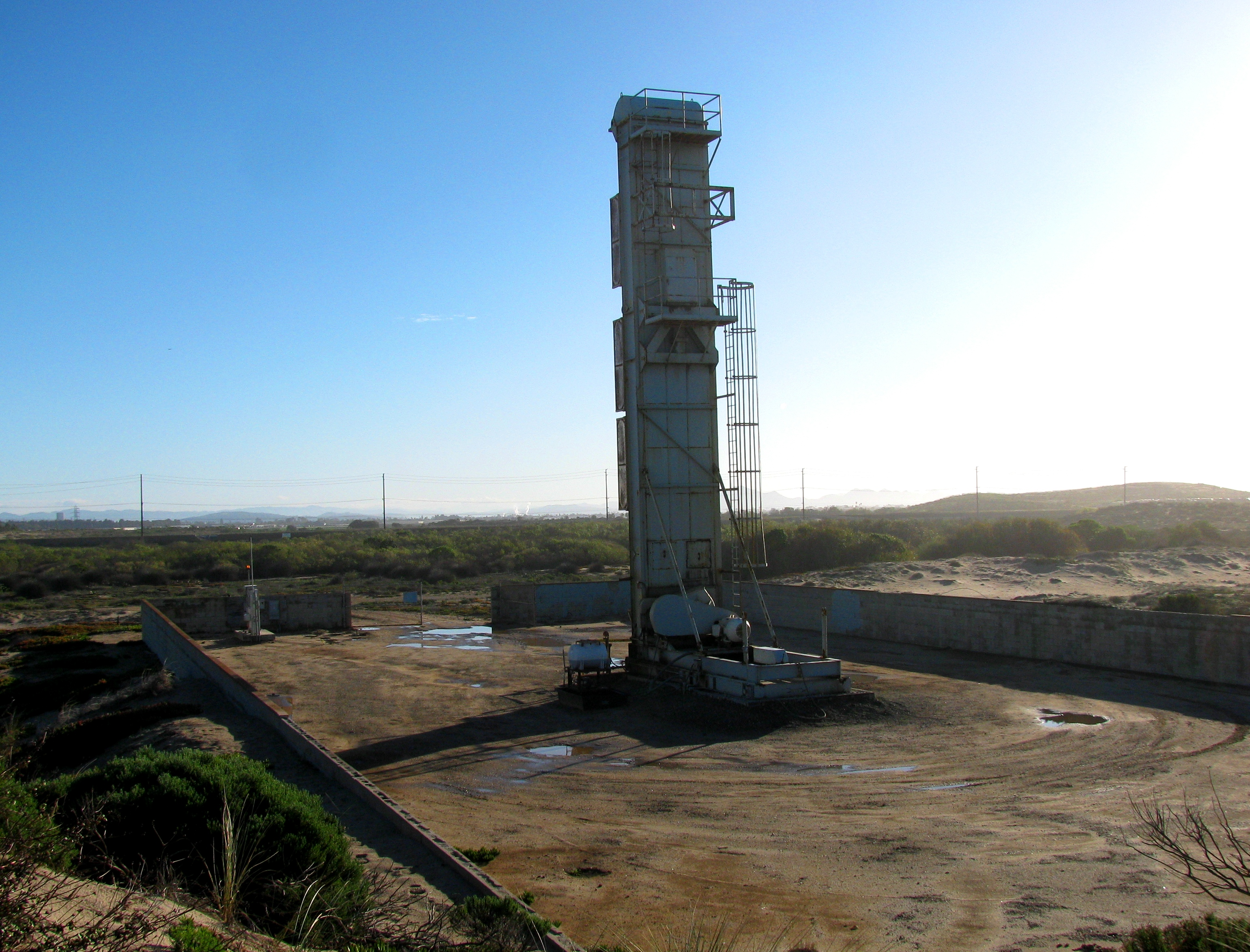 McGrath Well No. 1218; produced over 64,000 barrels of oil in 2009; photo by self, GFDL/equiv